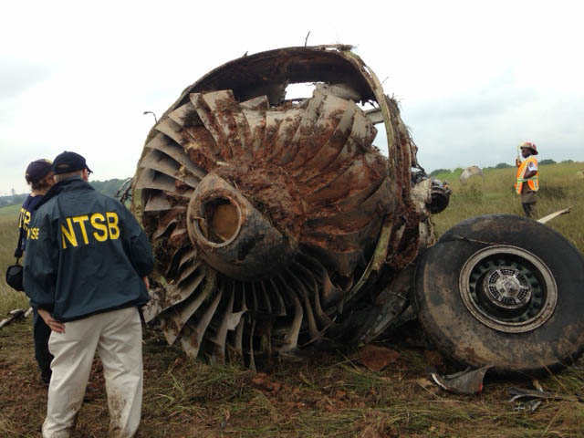 NTSB investigators arrive on scene in Birmingham, AL and begin the work of documenting the accident site.